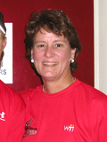 WTT Boston Lobsters coach Dr. Anne Smith with teammate Martina Navratilova